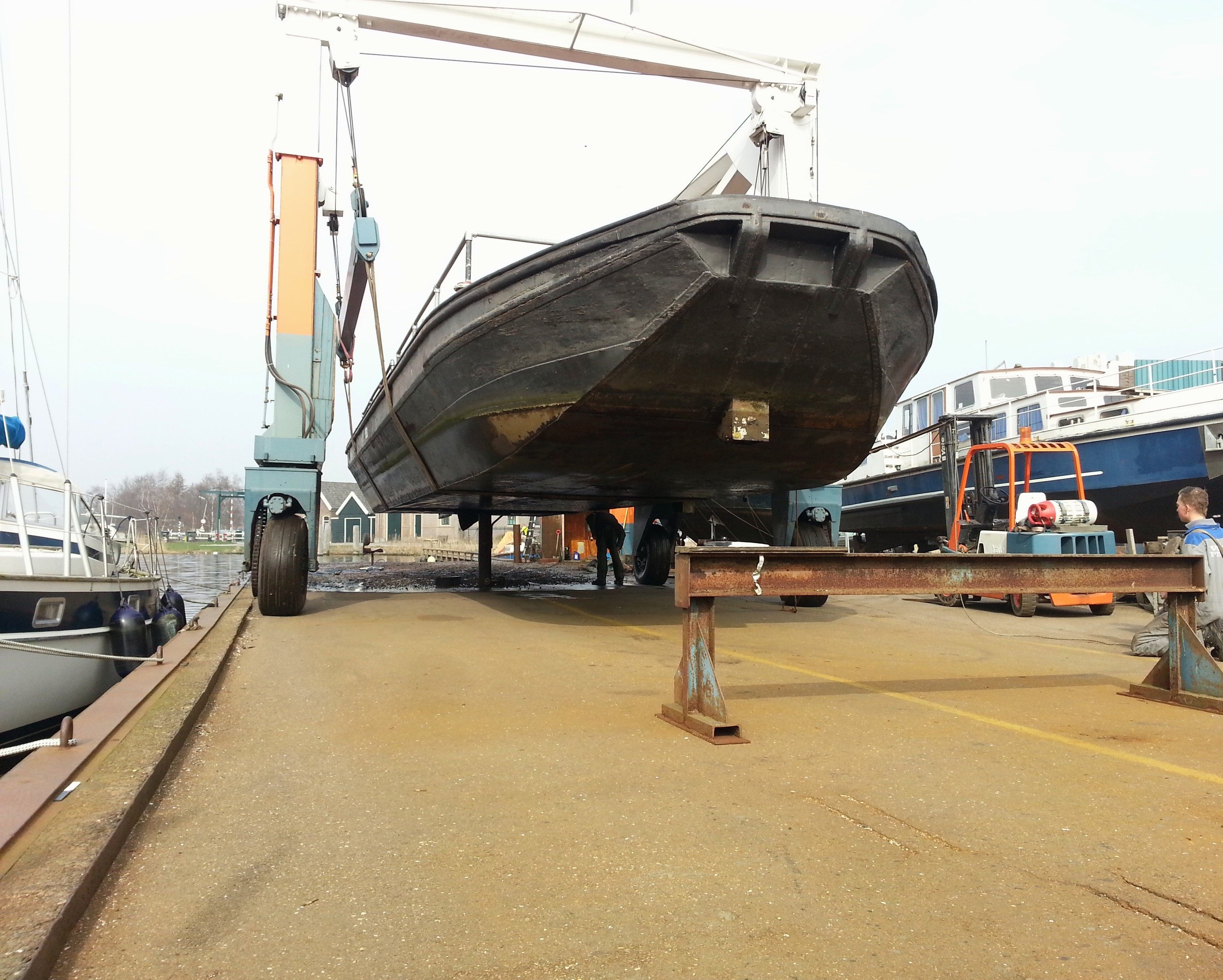 A barge goes for maintenance. You can clearly see the flat bottom.